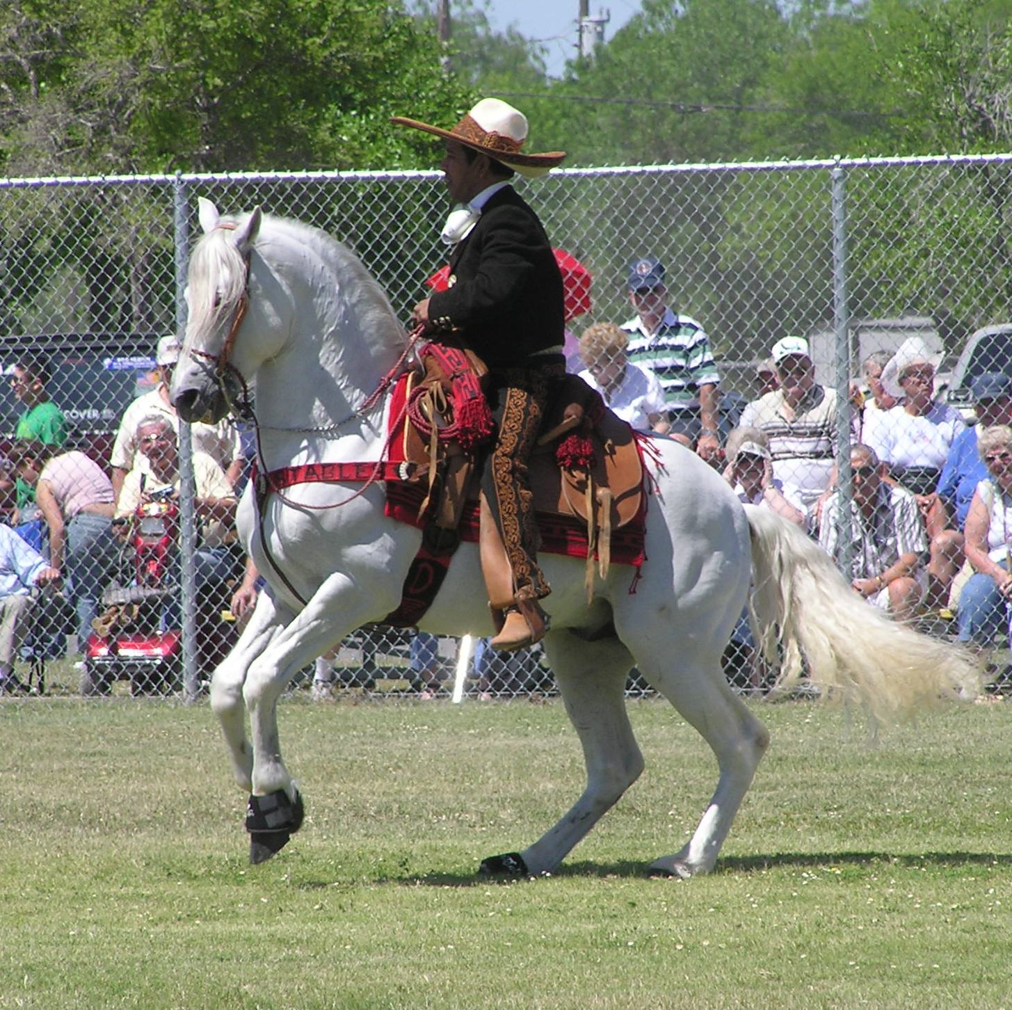 Azteca horse riden by horse breeder and trainer Sebastian Zarate during 2006 Onion Festival in Weslaco, Texas U.S.A.. The rider is dressed in traditional "charro" attire.